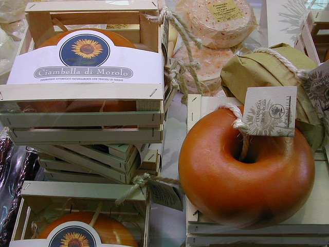 Ciambella is an italian cheese from Morolo.